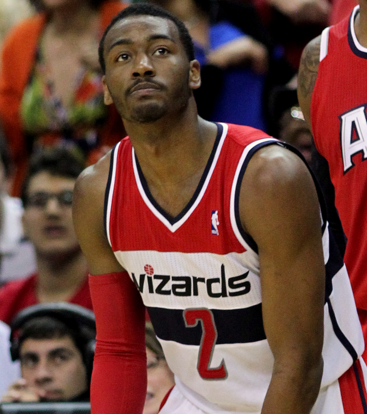 John Wall vs Hawks